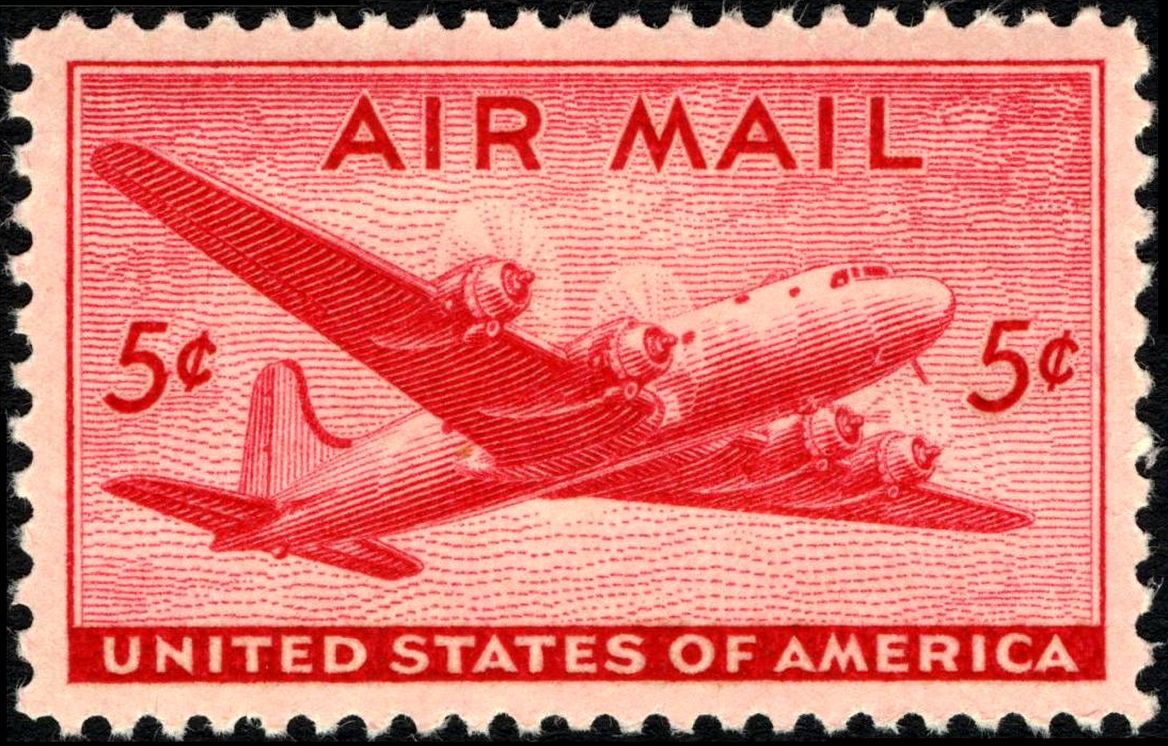 Image of U.S. Airmail stamp, 5c, red, 1946 issue